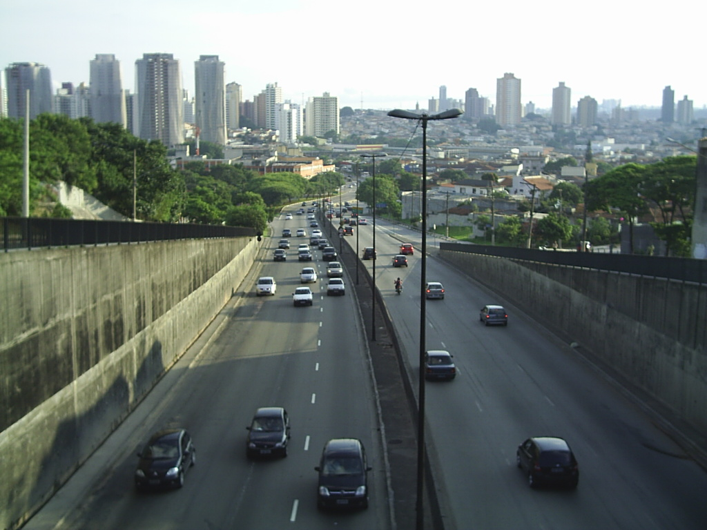 Salim Farah Maluf Avenue in São Paulo City.